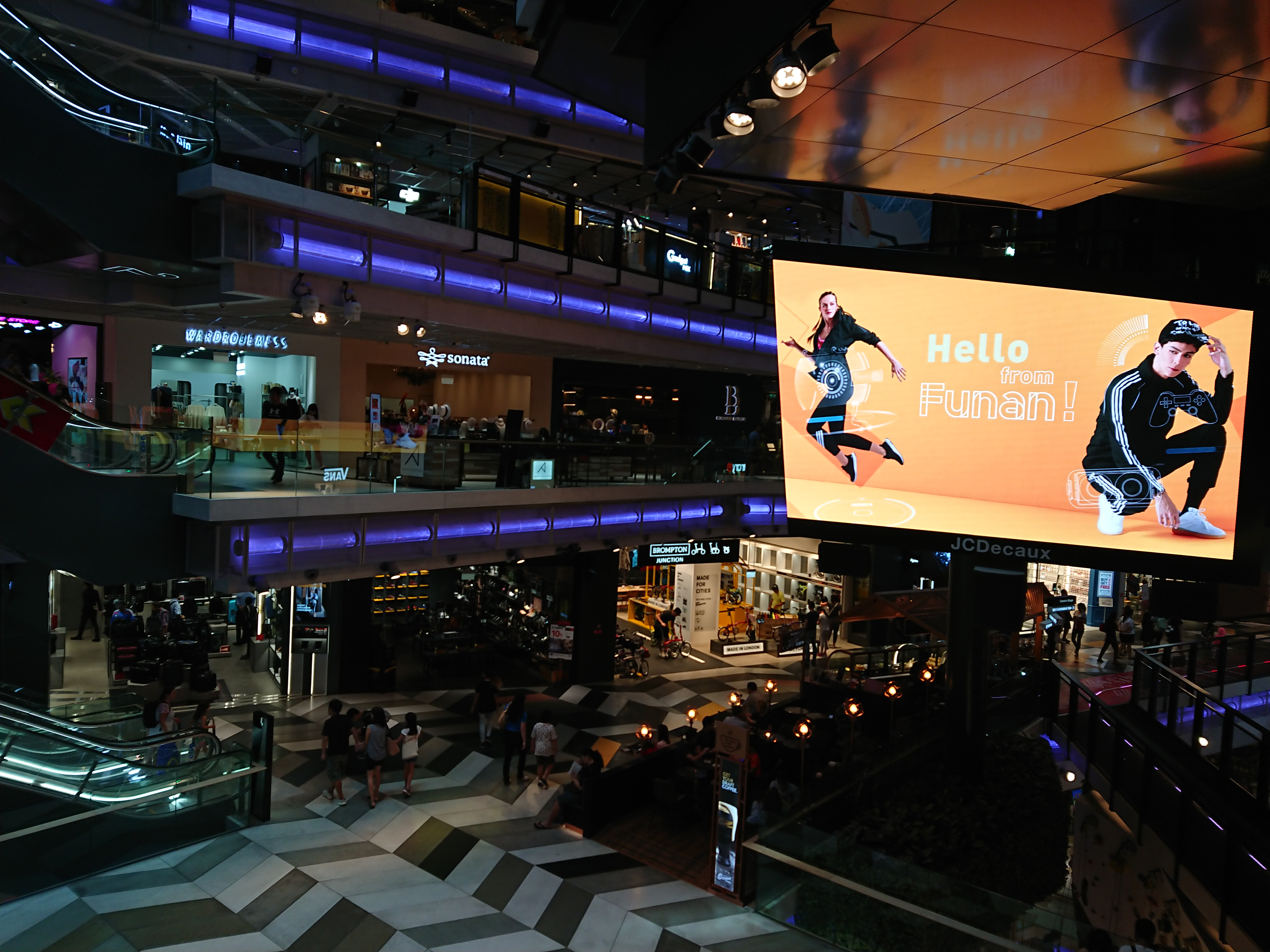 Picture of inside of mall at Funan, replacing the Funan Digitalife Mall in Singapore